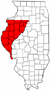 Illinois Military Tract of 1812. Public domain map of Illinois counties courtesy of The General Libraries, The University of Texas at Austin modified with MS Paint program (red area) to show Illinois Military Tract of 1812 area of state. User:beatgr